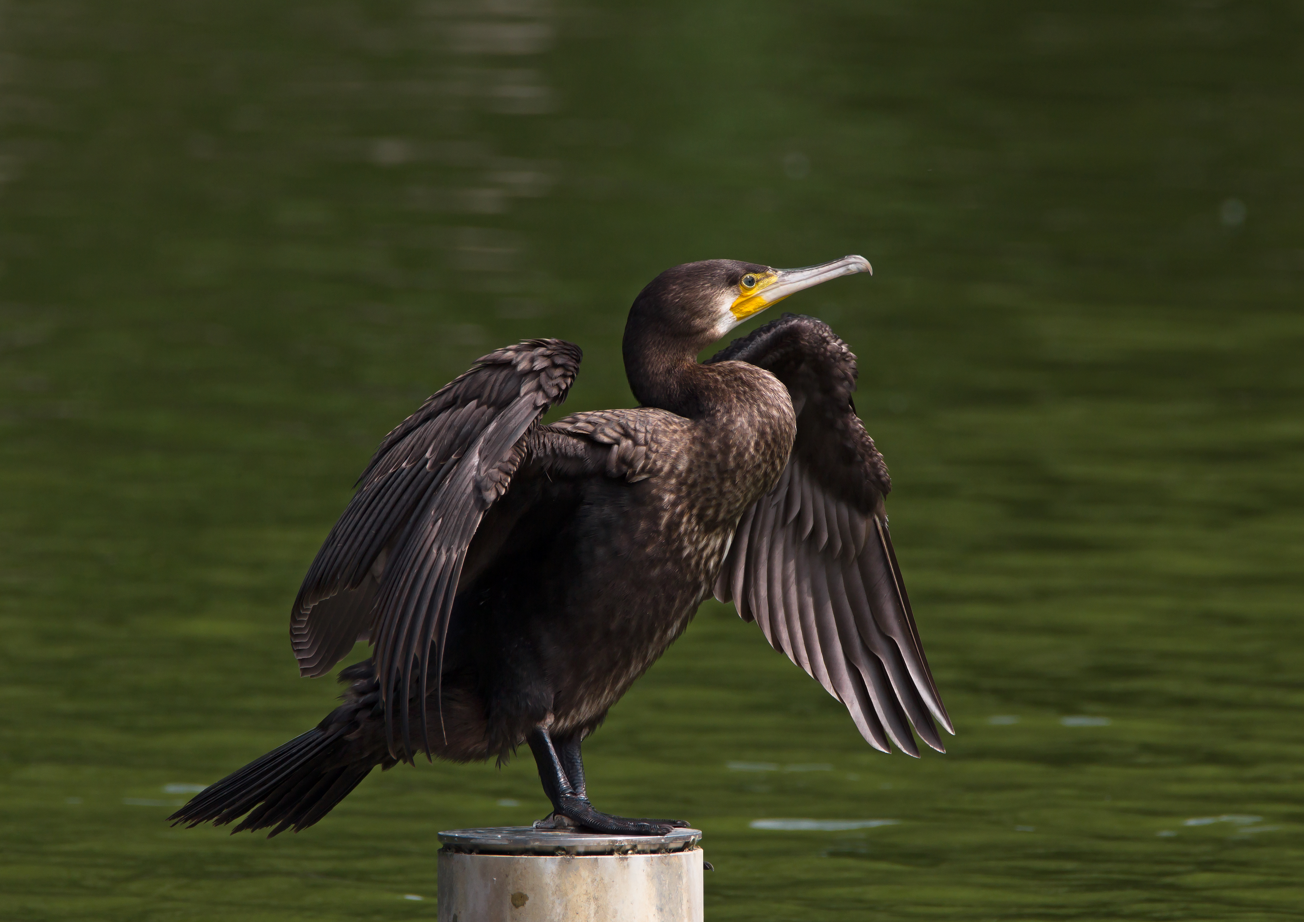 Great cormorant